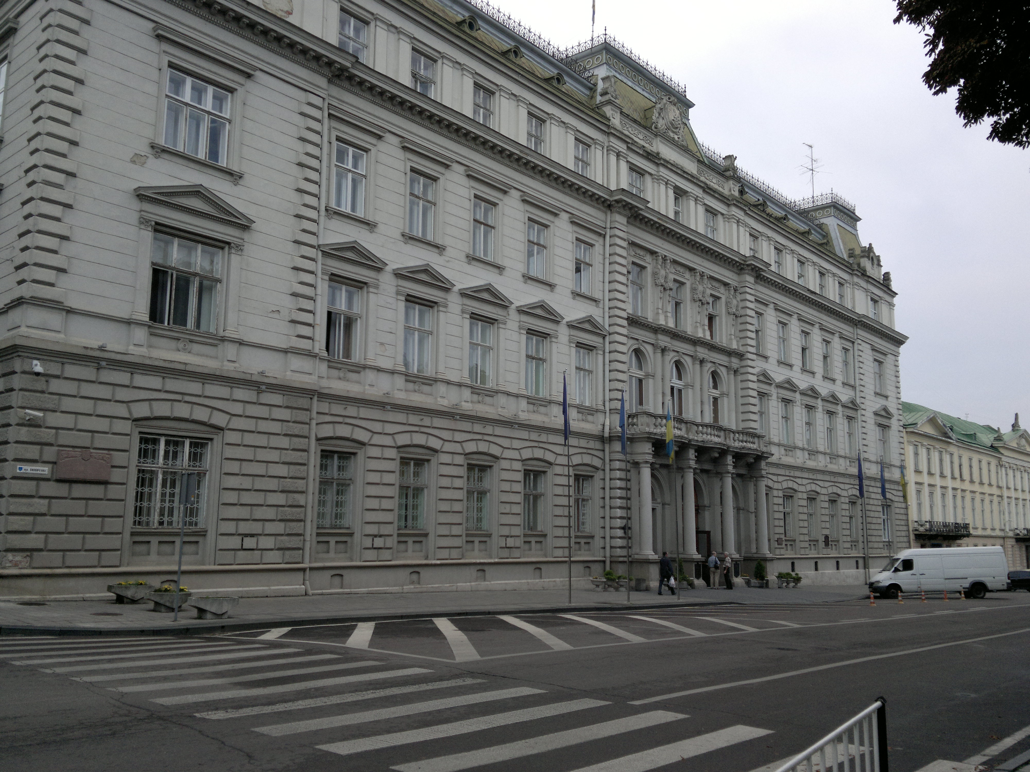 Lviv Regional State Administration building